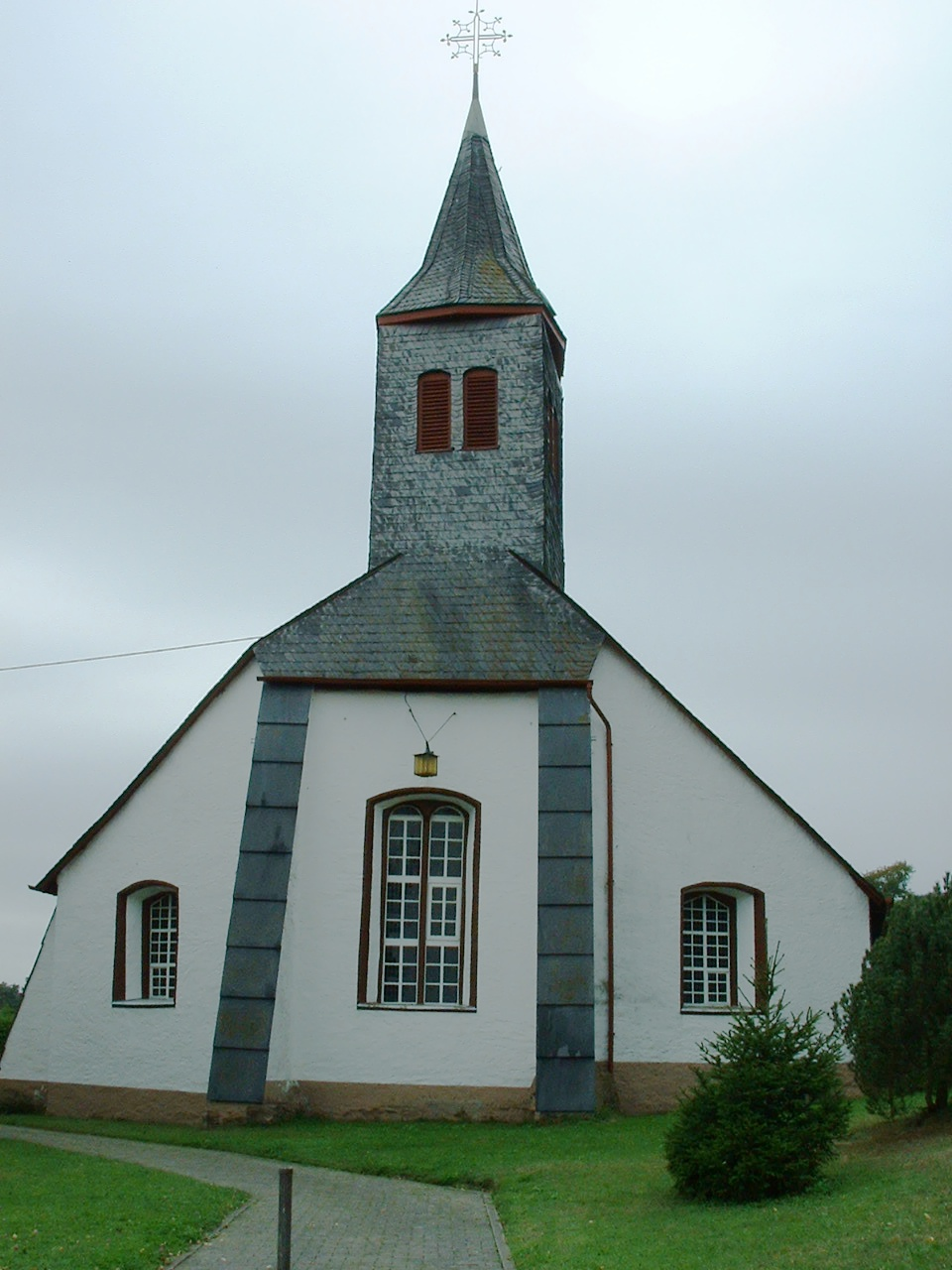 Evangelische Kirche, Oberkirn